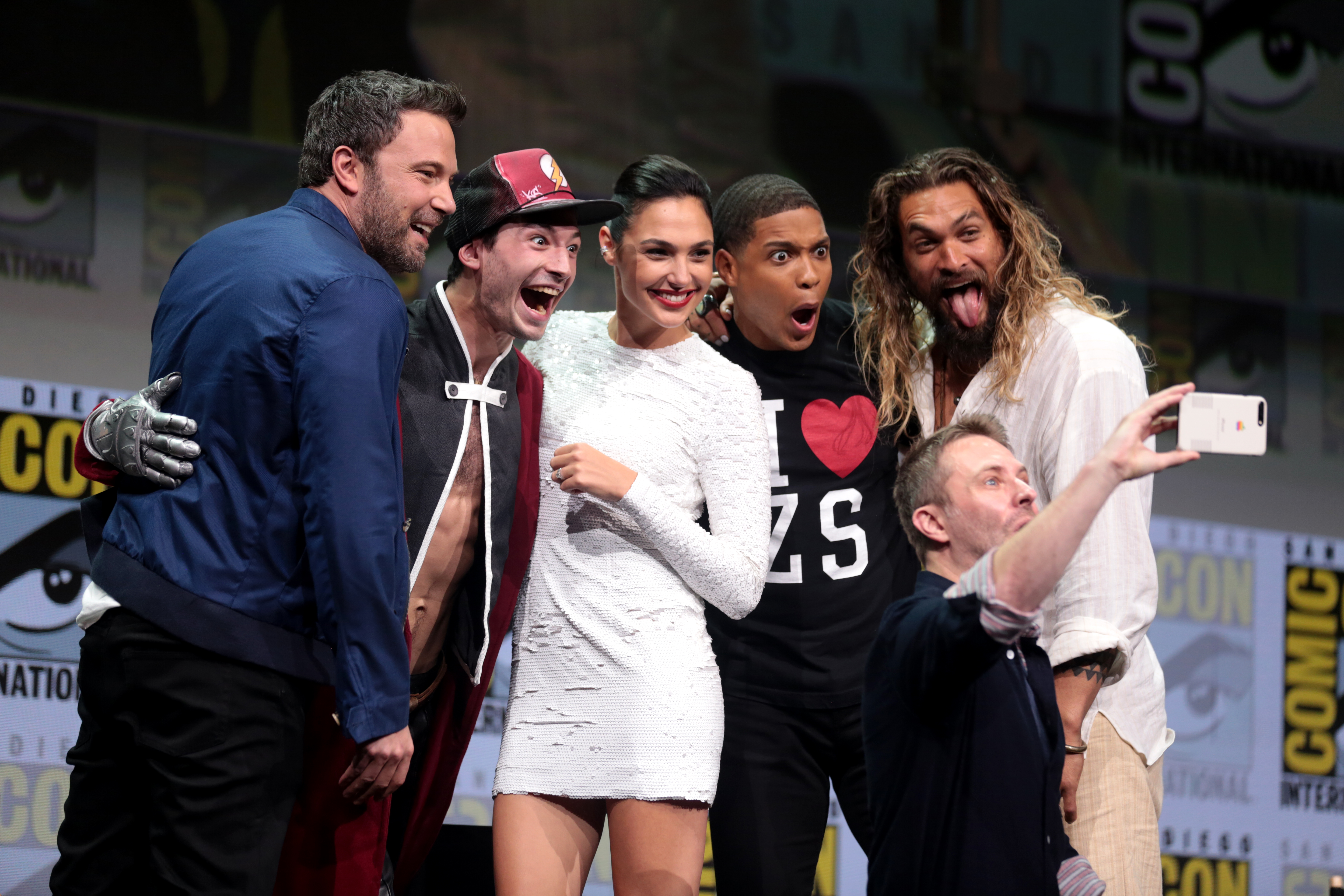 Ben Affleck, Ezra Miller, Gal Gadot, Ray Fisher, Jason Momoa and Chris Hardwick speaking at the 2017 San Diego Comic Con International, for "Justice League", at the San Diego Convention Center in San Diego, California.